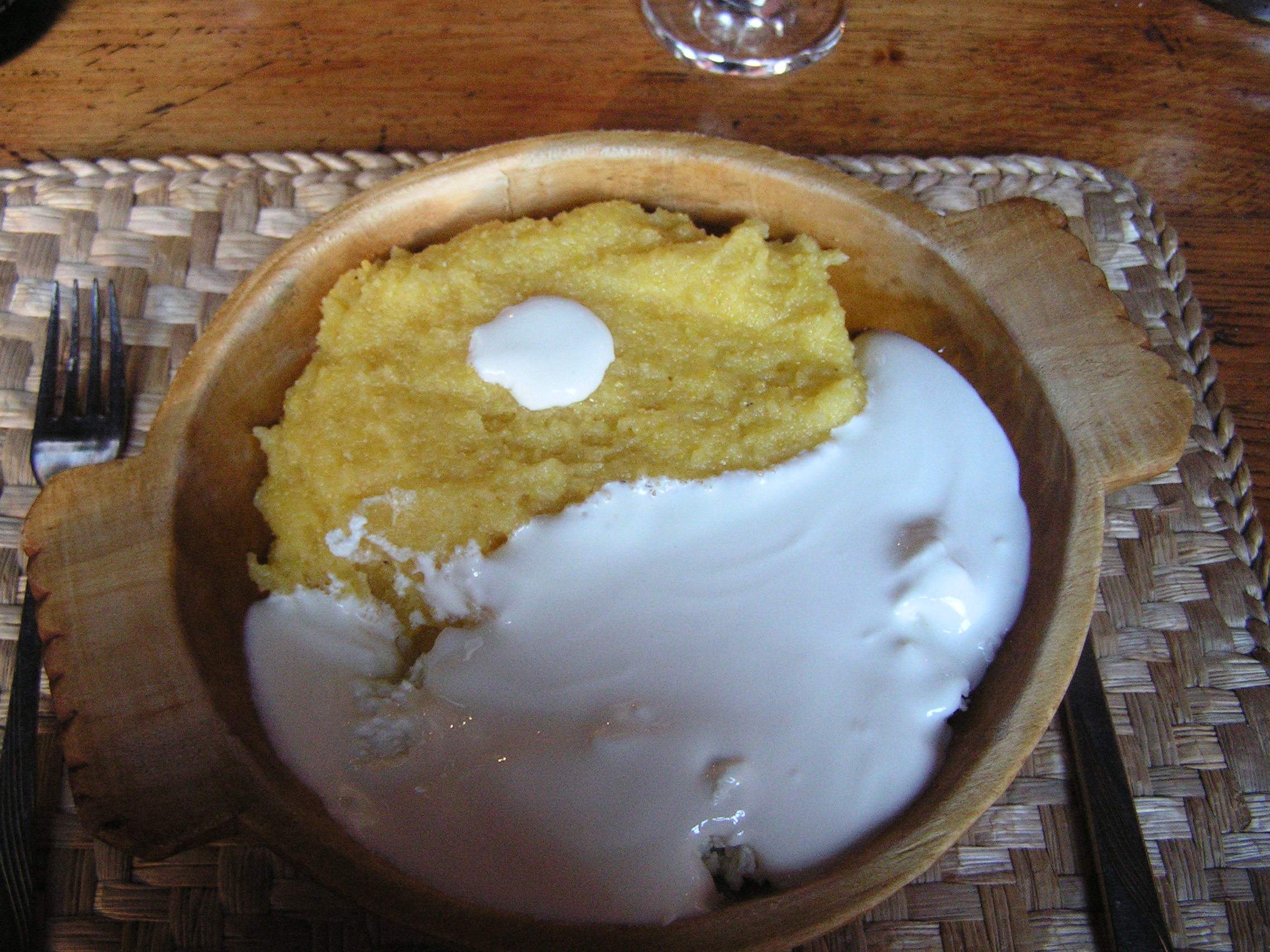 "Mamaliga with Branza and Smantana" served in Romania.